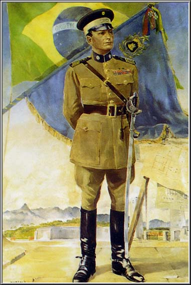 Painting of the Brazilian Marshall Jose Pessoa Cavalcanti de Albuquerque